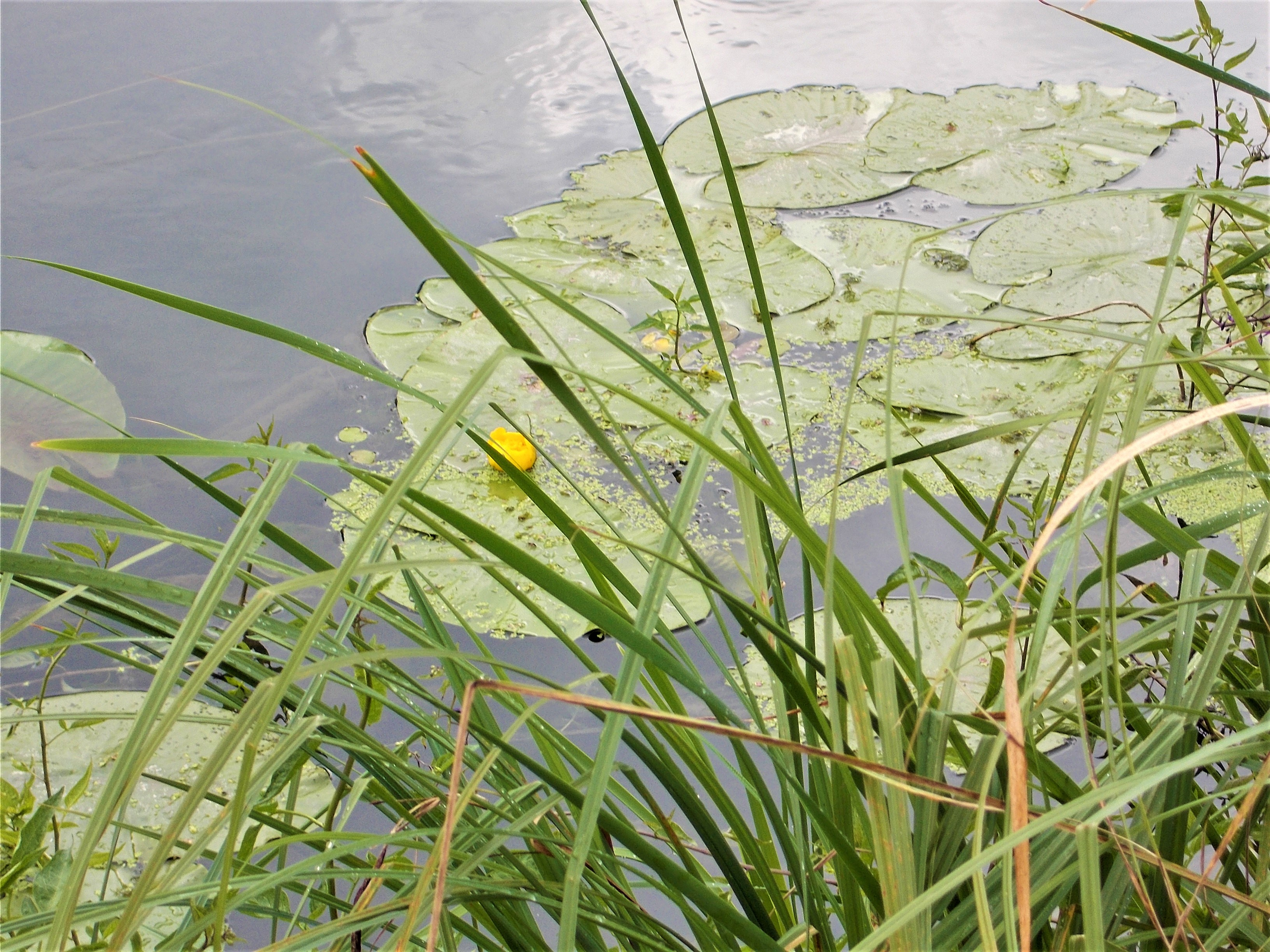 Cefa Natural Park, Romania (Nuphar lutea)